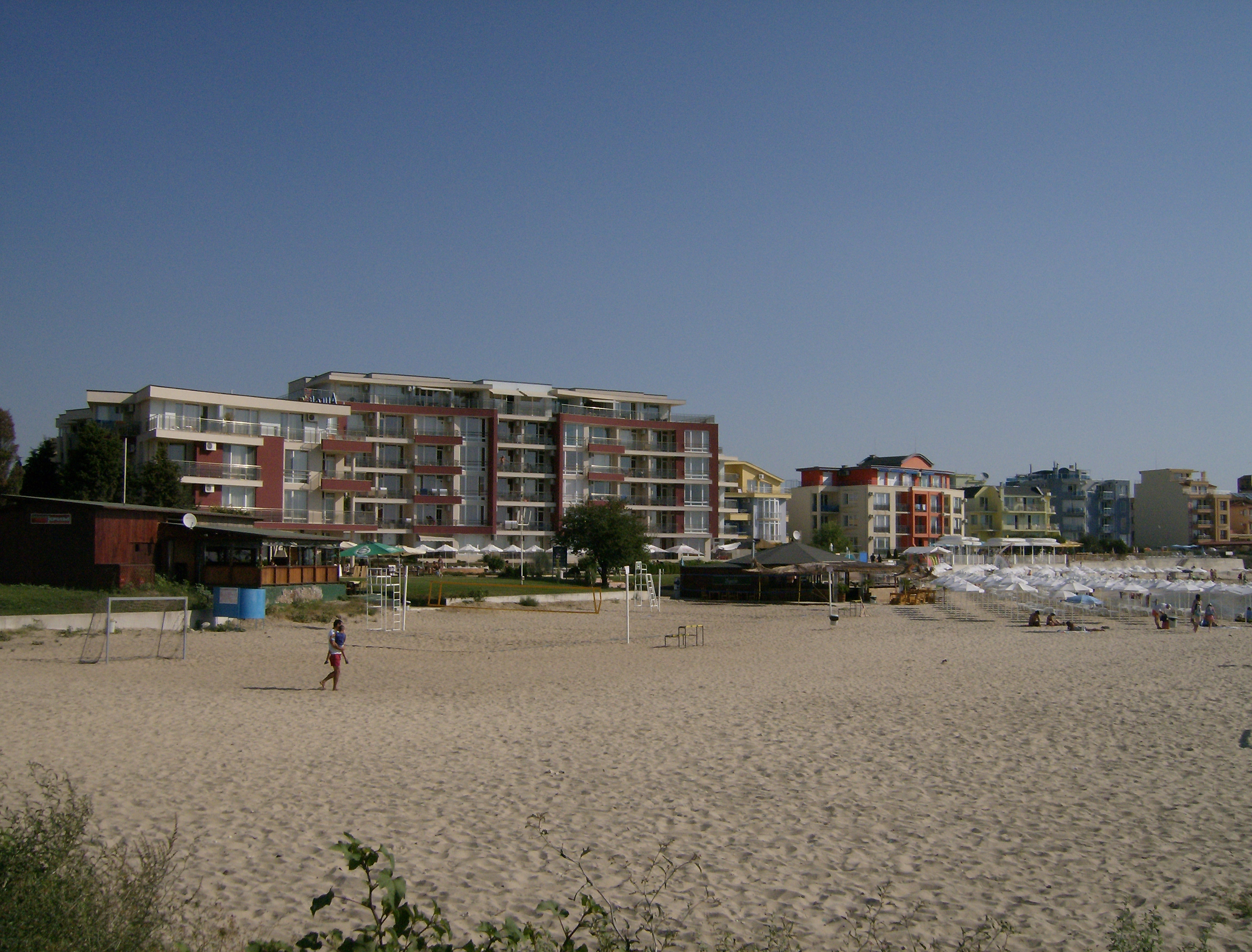 Ravda